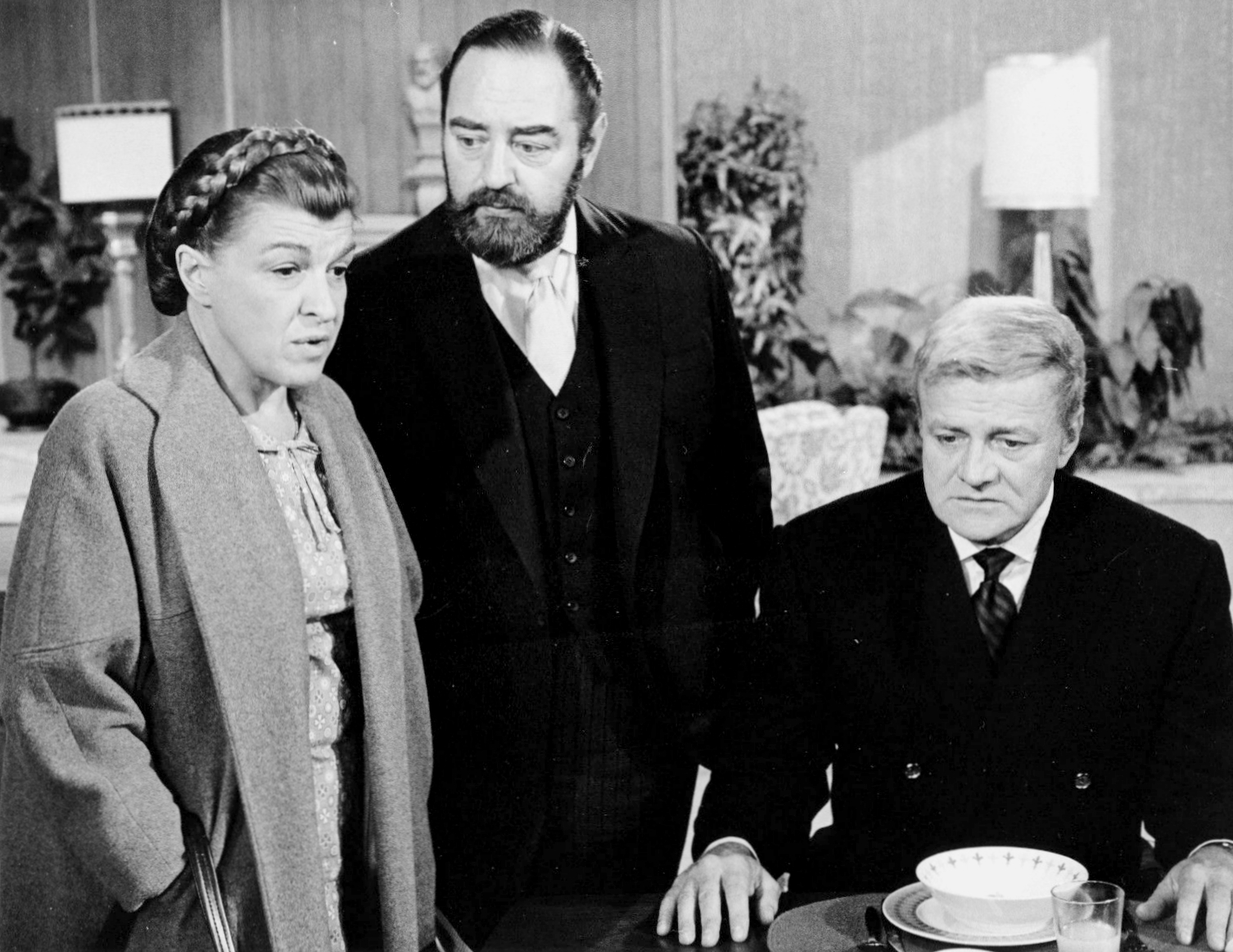 Actors Sebastian Cabot, Brian Keith and actress Nancy Walker in a 1970 promotional photograph for the CBS Television series Family Affair